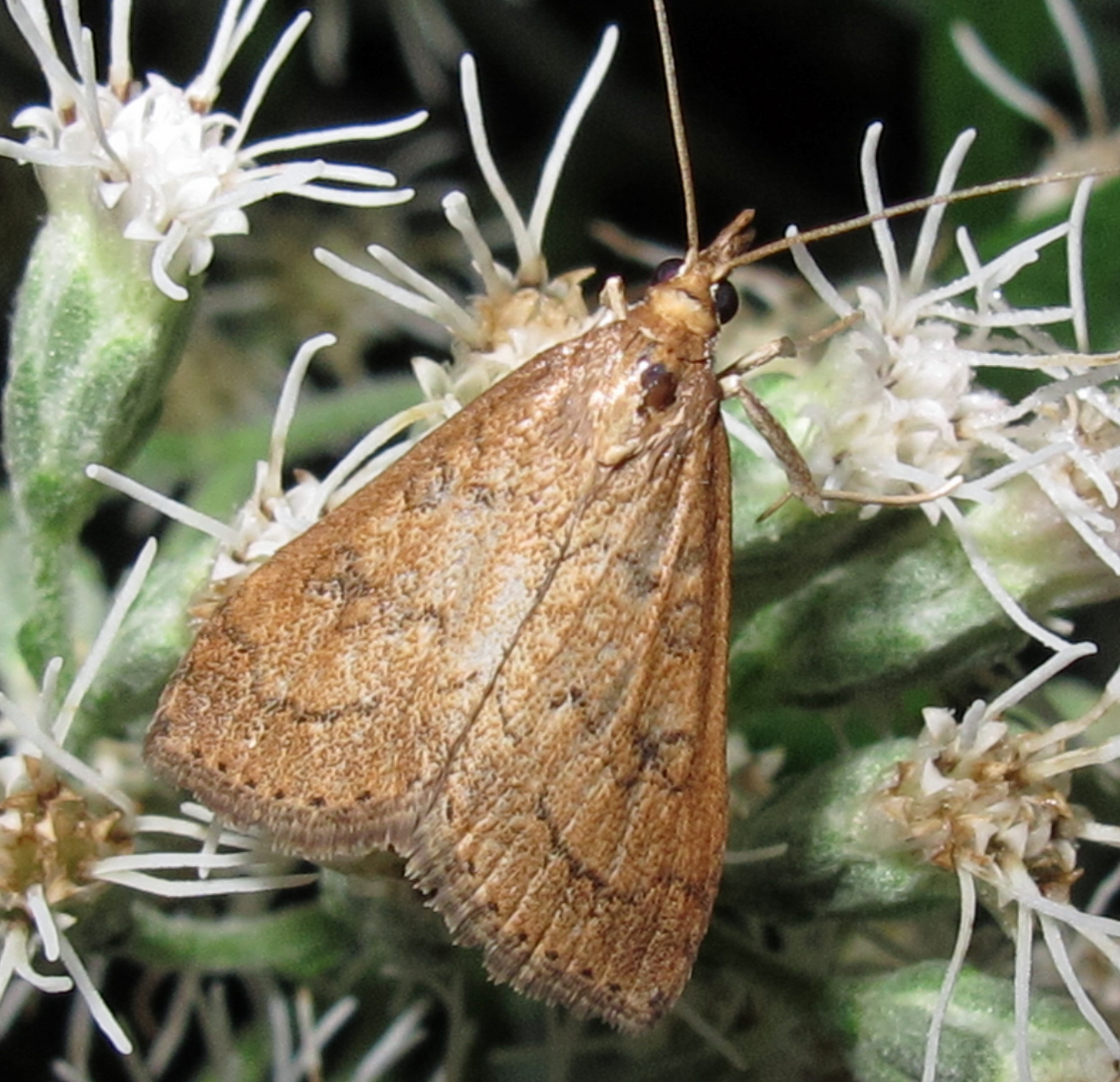 Udea rubigalis, Wheatley, Ontario, Canada.